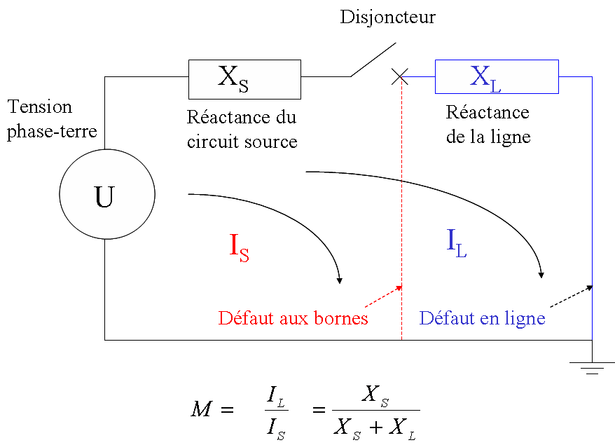 Short-line fault in high voltage network. Improvement of image made in GIF.